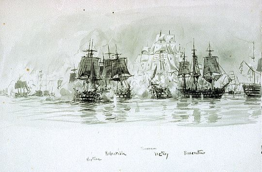 Named vessels at the Battle of Trafalgar 1805